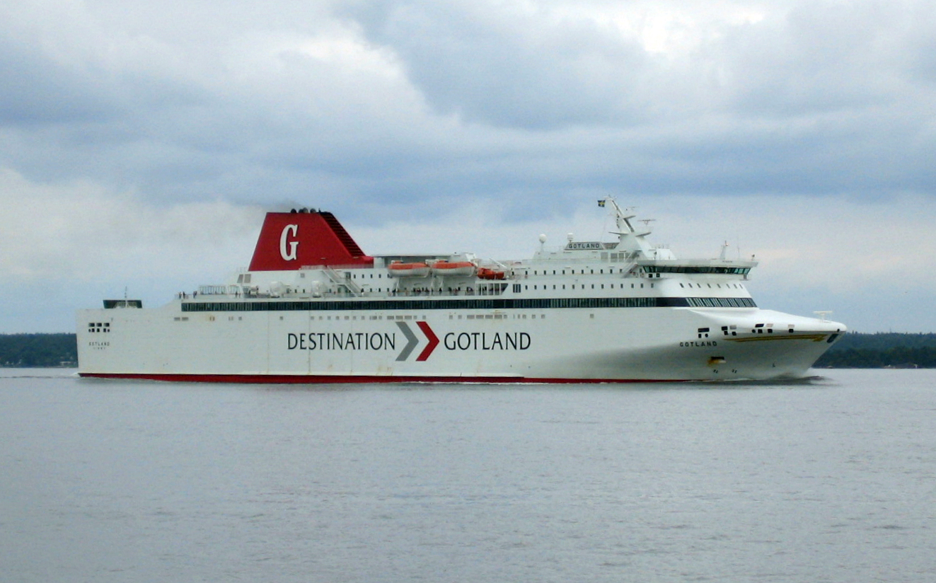 M/S Gotland IMO Number: 9223796 MMSI Number: 265871000 Callsign: SGPI Length: 196 m Beam: 26 m